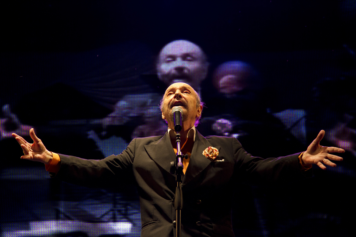 Uruguayan poet and songwriter Horacio Ferrer performs his signature Balada para un loco ("Madman's Ballad") at the 2011 Tango Day, in Buenos Aires. Photo: Estrella Herrera